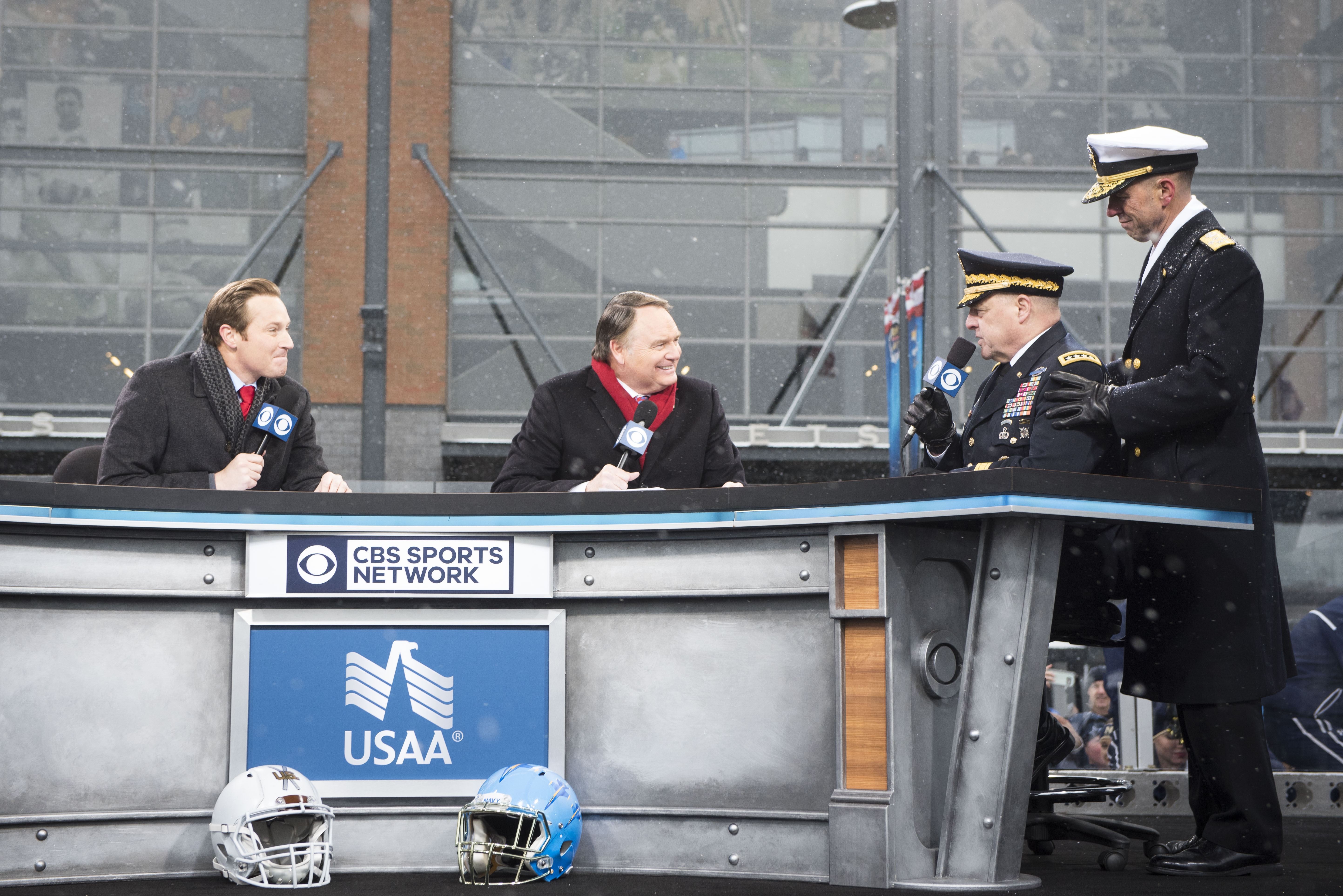 171209-N-AT895-267 PHILADELPHIA, Pa. (Dec. 9, 2017) Chief of Naval Operations (CNO) Adm. John Richardson and Chief of Staff of the Army Gen. Mark Milley hold an interview with CBS Sports at the 2017 Army-Navy football game in Philadelphia. This was the 118th meeting between the U.S. Naval Academy Midshipmen and the U.S. Military Academy Black Knights, with Army defeating Navy 14-13. (U.S. Navy photo by Mass Communication Specialist 1st Class Nathan Laird/Released)